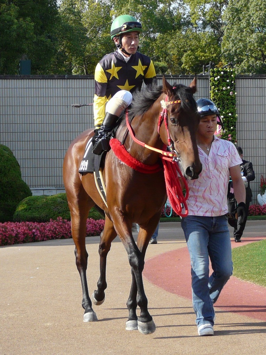 Yoshitomi-Shibata